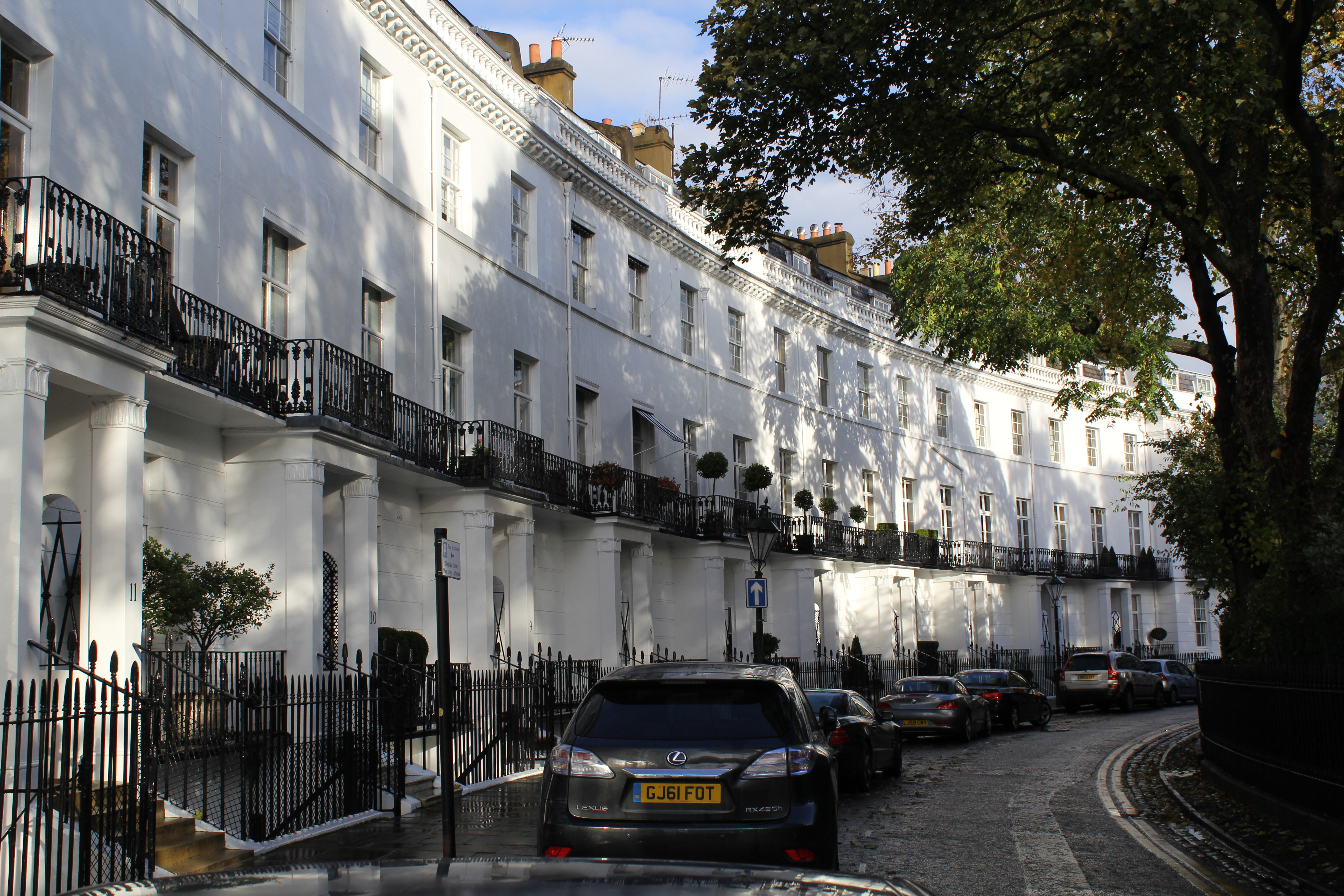 Pelham Crescent, London SW7